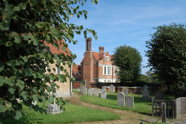 Woodham Mortimer Hall The Hall stands close to the A414 and Woodham Mortimer Church, the corner of which can be seen on the left of the photo.